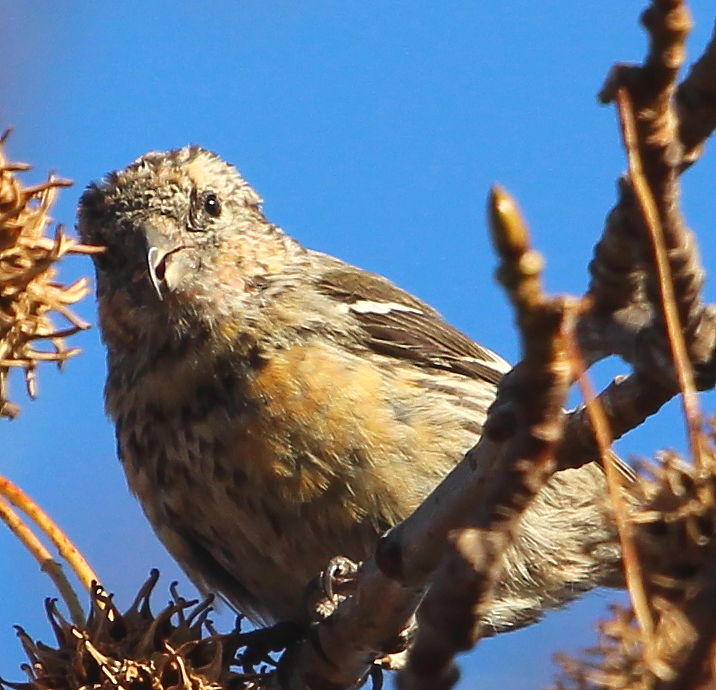 Bill Rudden took this photo at Carondelet Park on 11/27/12